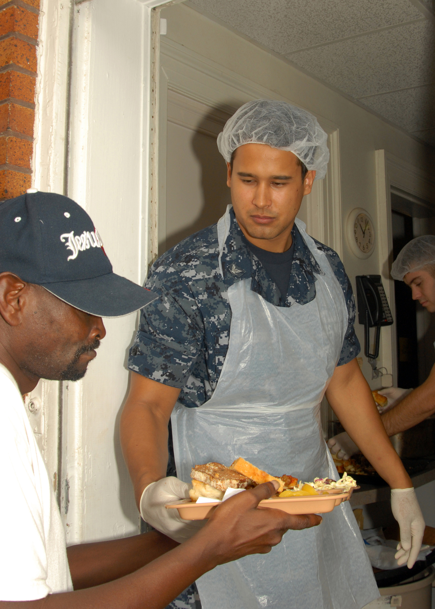 NEWPORT NEWS, Va. (Sept. 18, 2009) Machinery Repairman 3rd Class Jared T. Shaver assigned to the aircraft carrier USS George H.W. Bush (CVN 77) serves a tray of food during a lunchtime meal at St. Vincent De Paul Catholic Church. (U.S. Navy photo by Mass Communication Specialist 3rd Class Kasey Krall/Released)